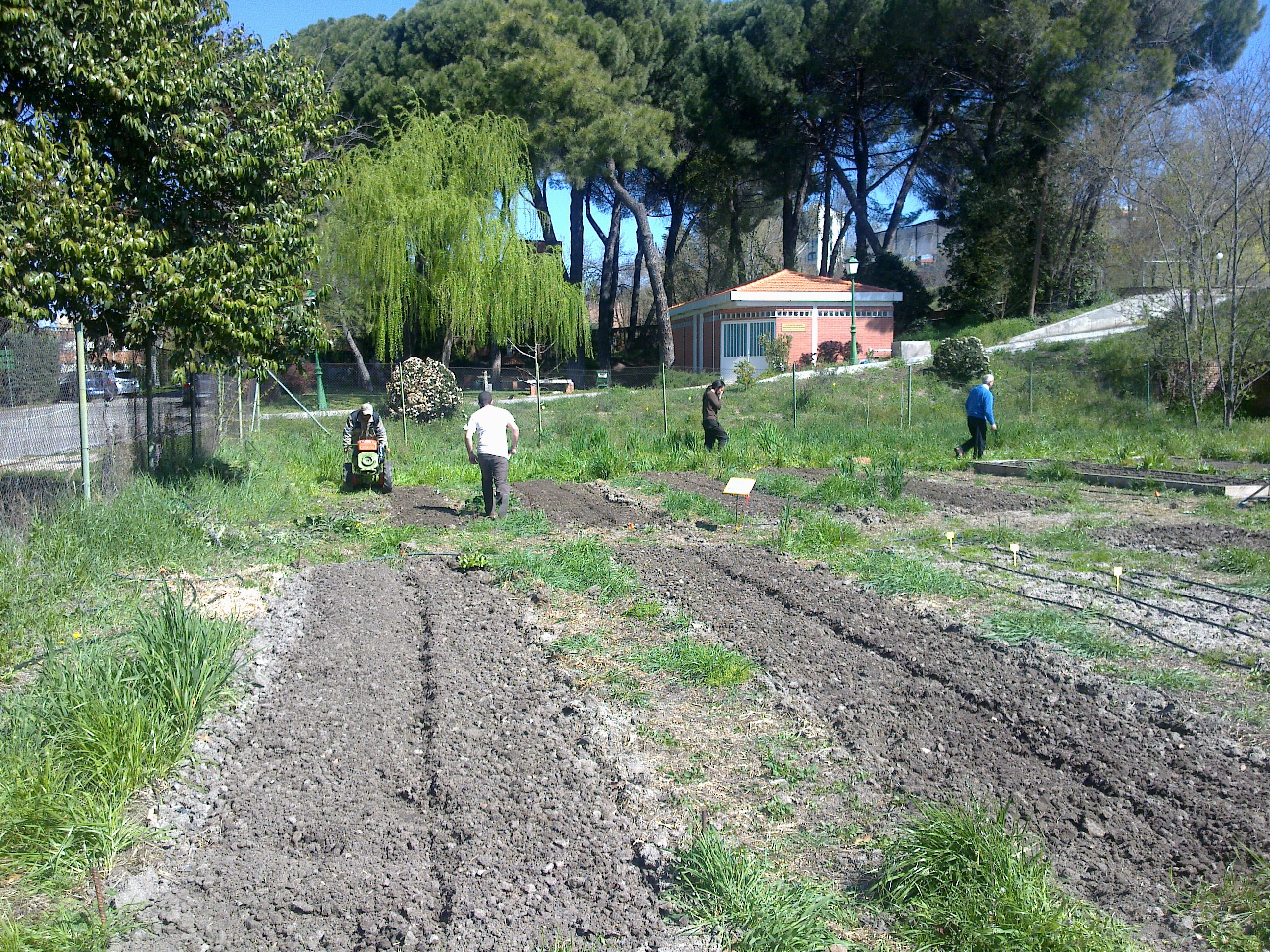 Organic garden on the school of agricultural engineering of the Technical University of Madrid (Spain)